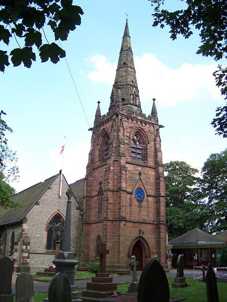 St Margaret's parish church, Great Barr, West Midlands (formerly Staffordshire). The tower was built of brick in 1677, but this is completely hidden by a Gothic revival red sandstone casing added in 1893. The spire is 18th-century.